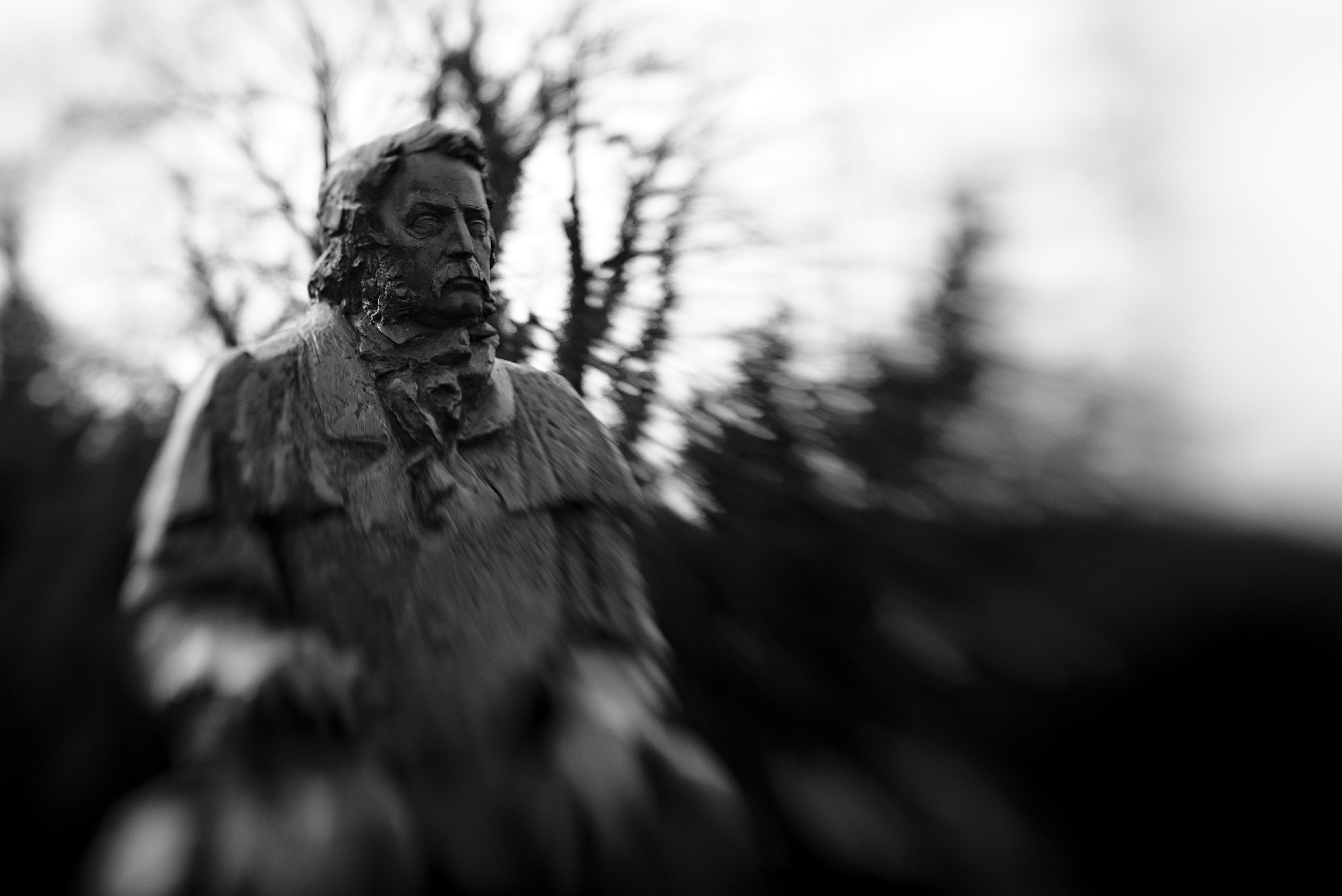 Outside of Castle in Kórnik (Zamek w Kórniku) - Lensbaby Composer + Double Glass Optic